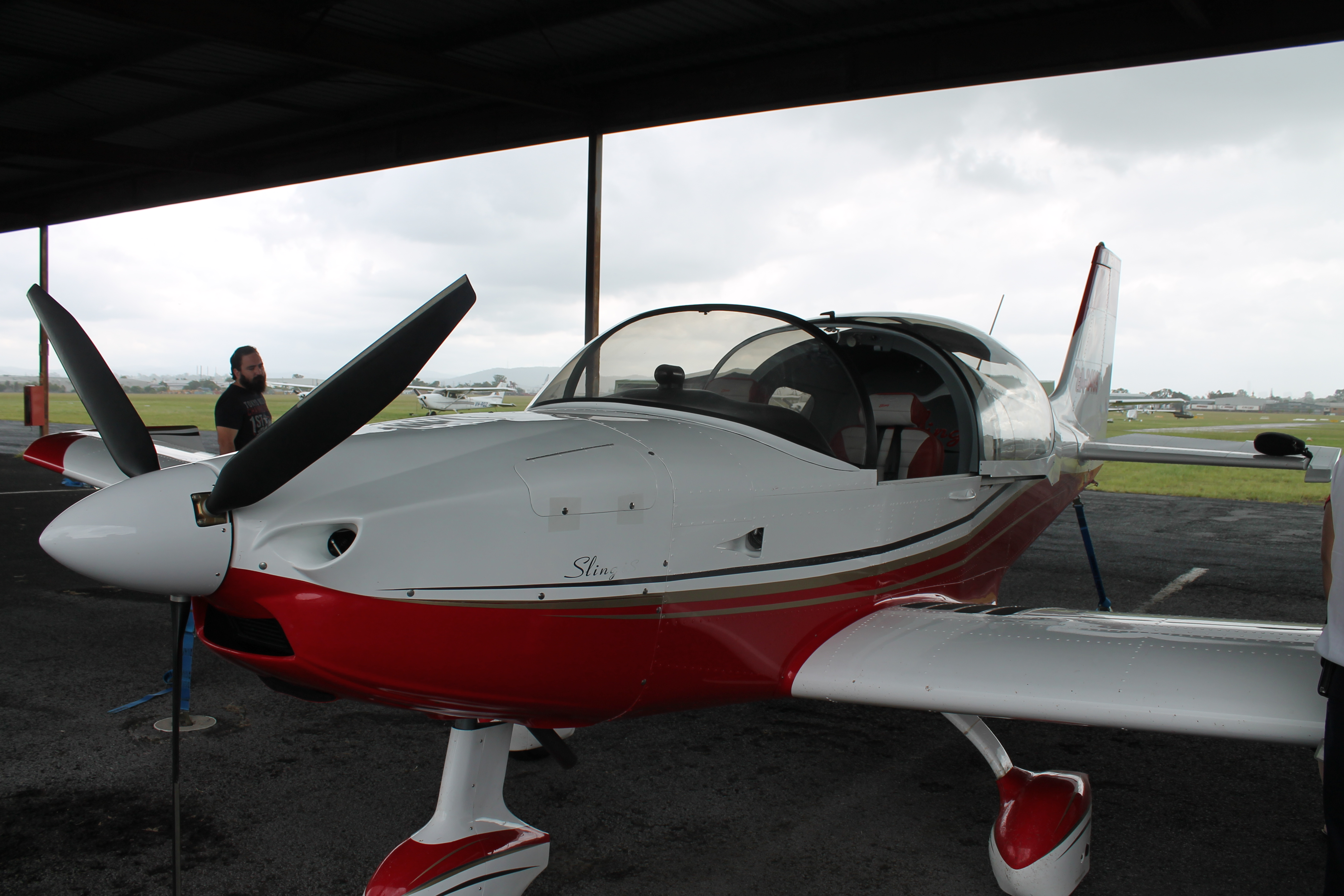 RA-Aus Sling 2 Registration 24-8489